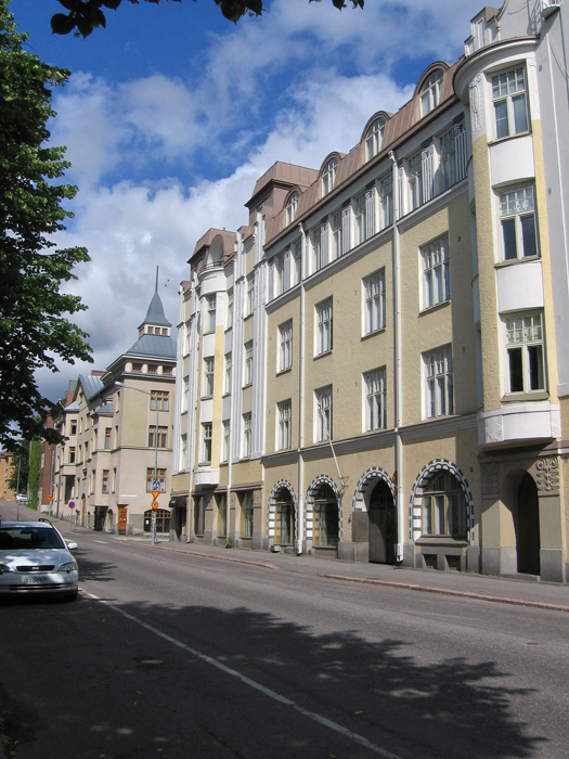 Lahti, Harjukatu